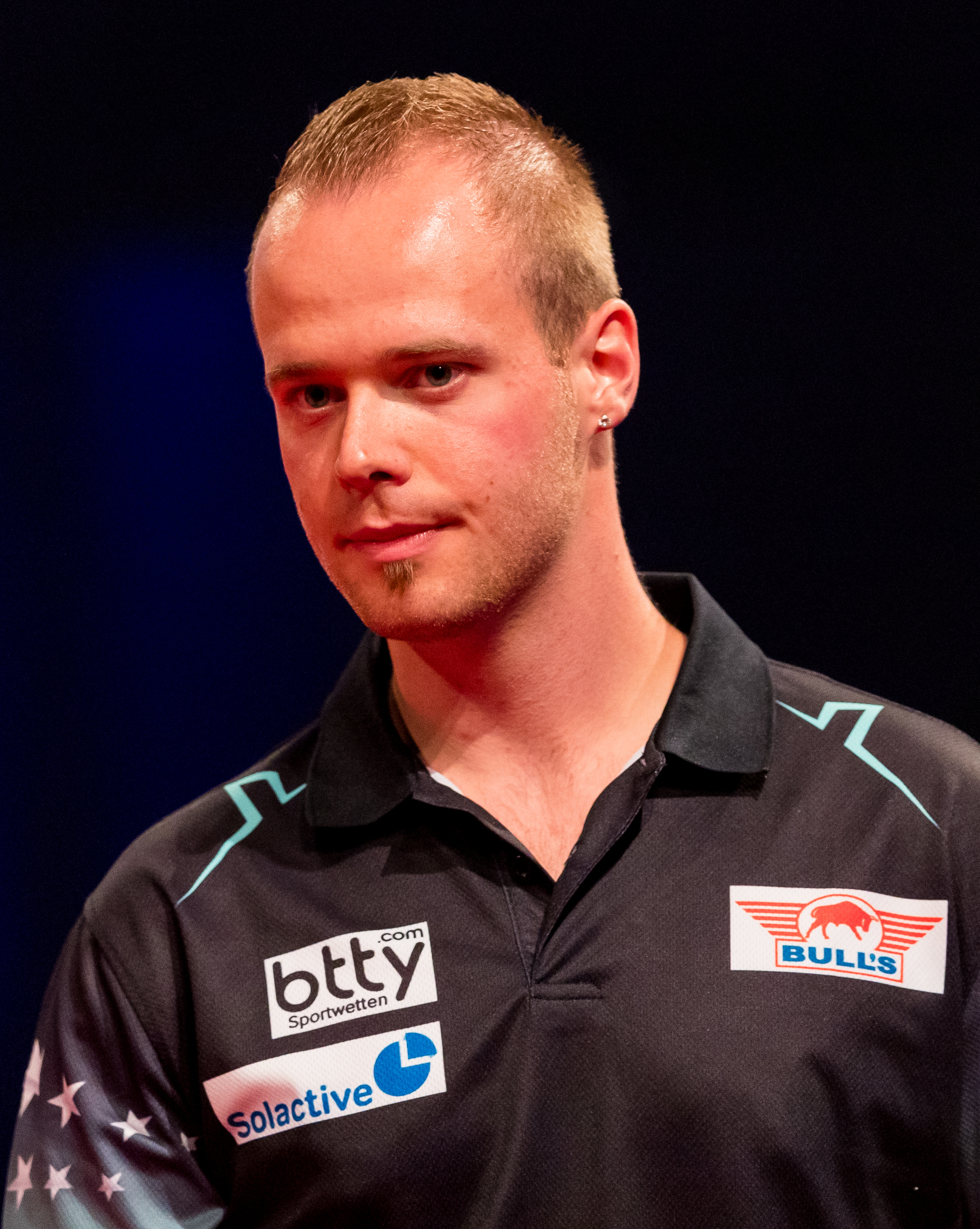 Max Hopp 5:6 William O'Connor during PDC Europe Darts Matchplay at Maimarkthalle, Mannheim, Baden-Württemberg, Germany on 2019-09-06, Photo: Sven Mandel